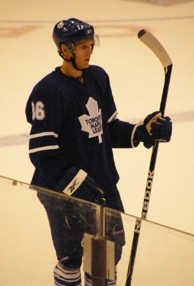 At ACC vs. Calgary